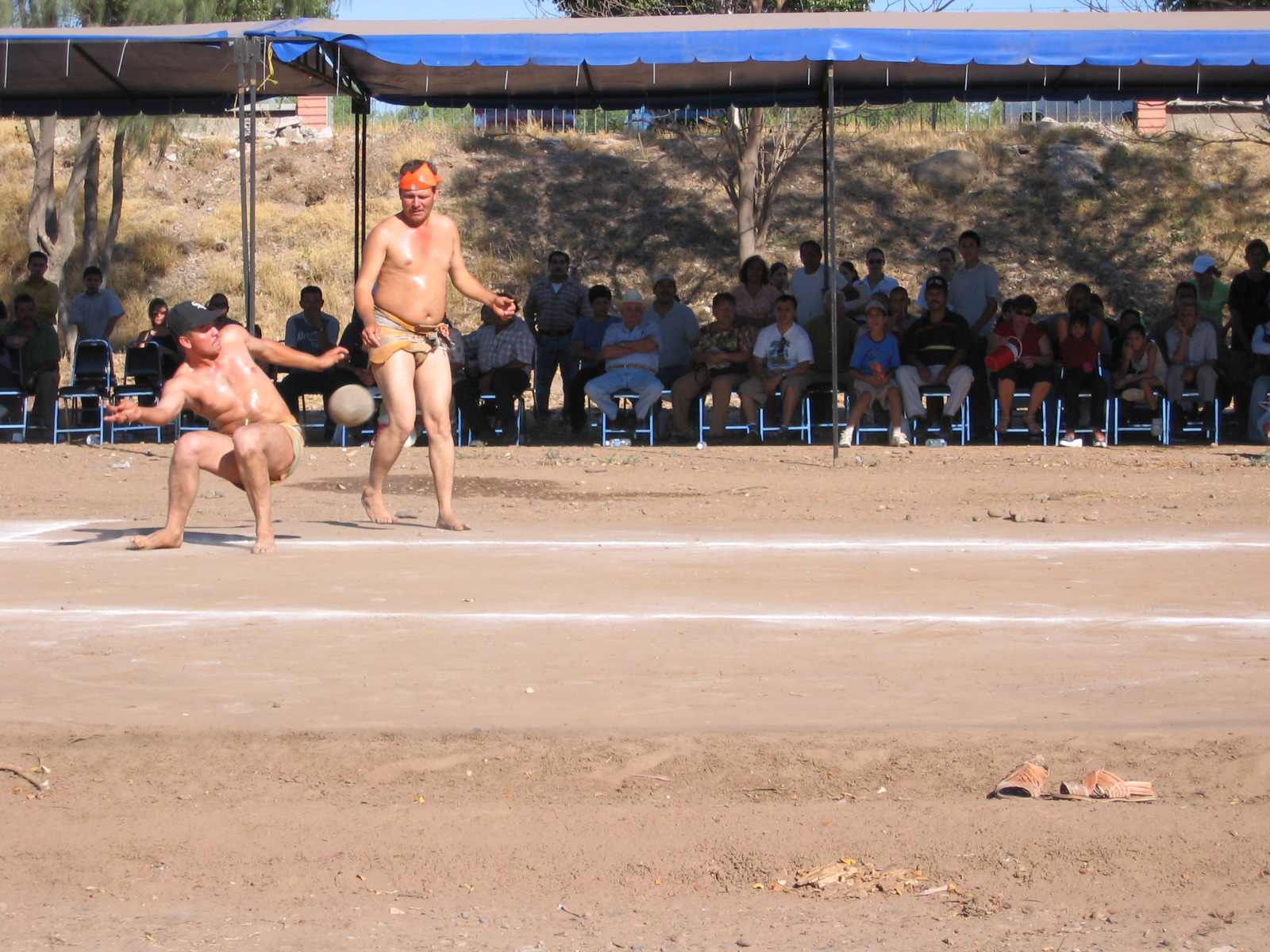 Ulama players in front of an audience in Culiacán, Sinaloa (Mexico).